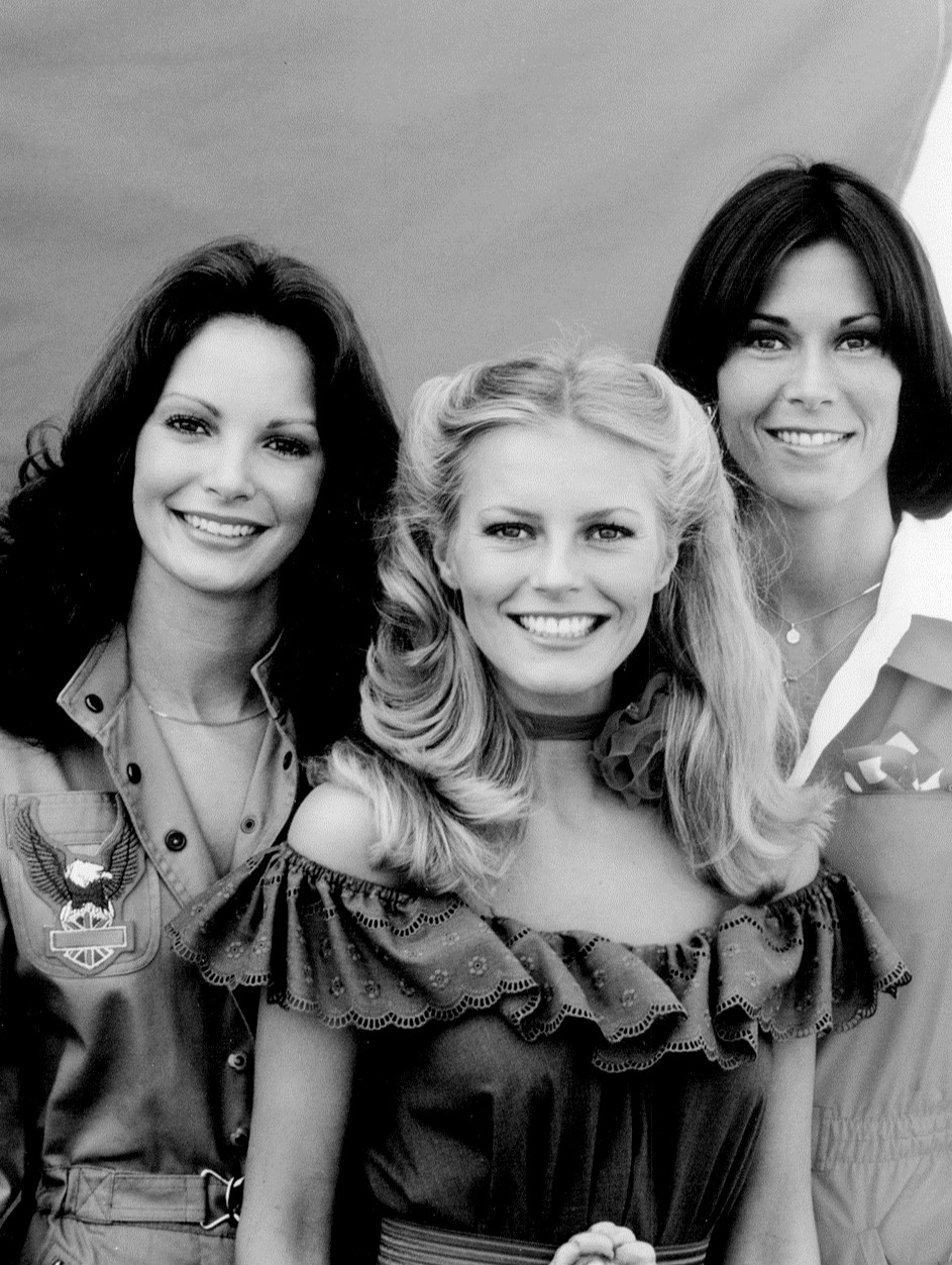 Publicity photo from Charlie's Angels, 1977. Pictured are Jaclyn Smith, Cheryl Ladd, and Kate Jackson. Ladd replaced Farrah Fawcett-Majors.